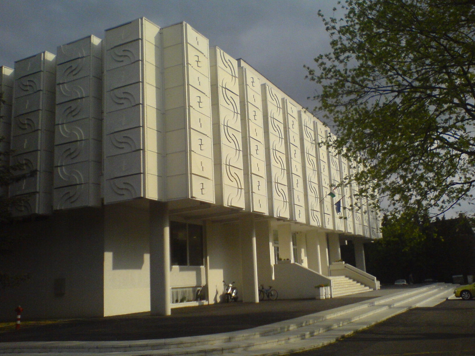 Sándor Hevesi Community Center, Nagykanizsa, Hungary